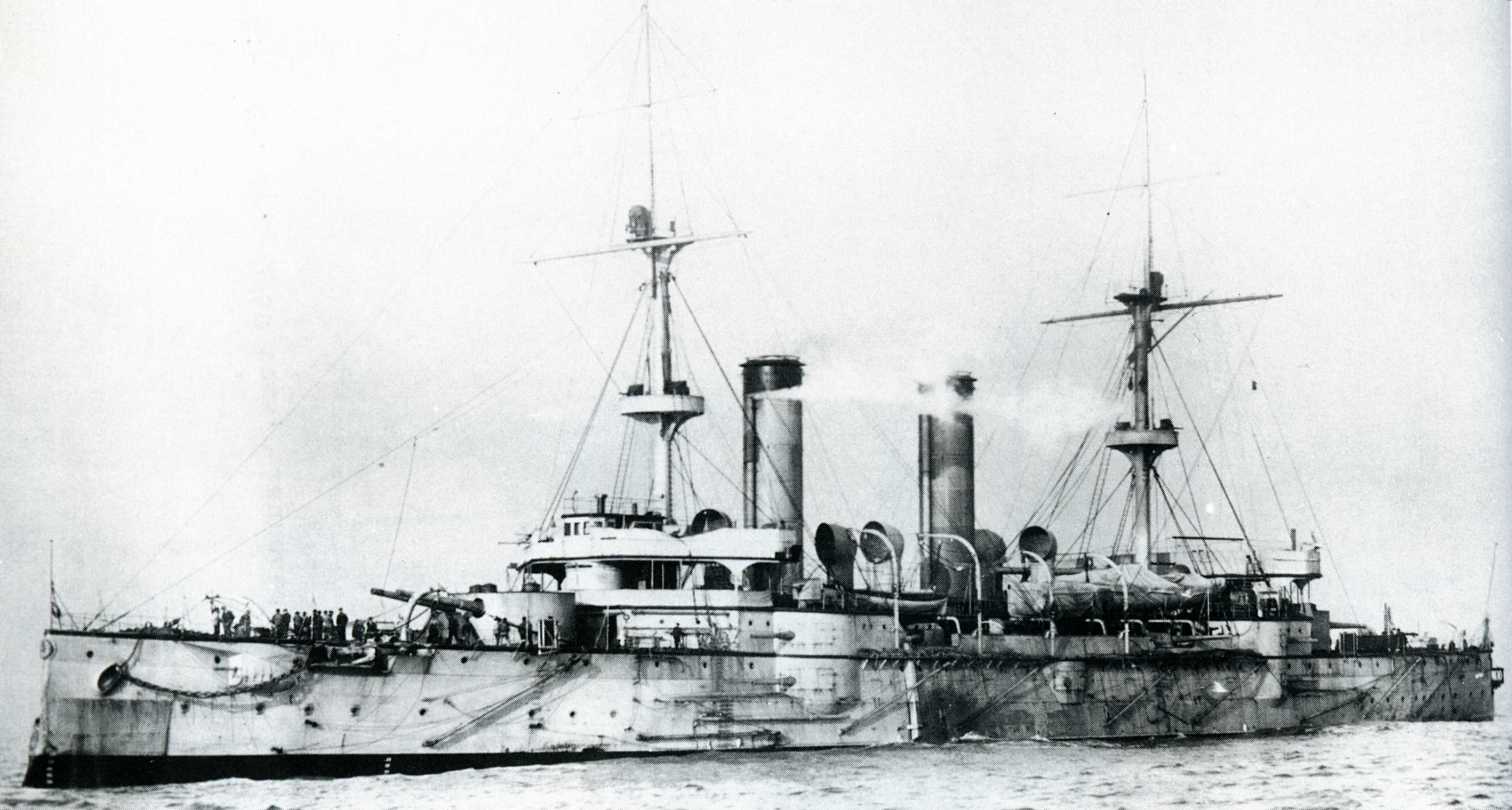 Japanese armored cruiser Asama on completion, 1898